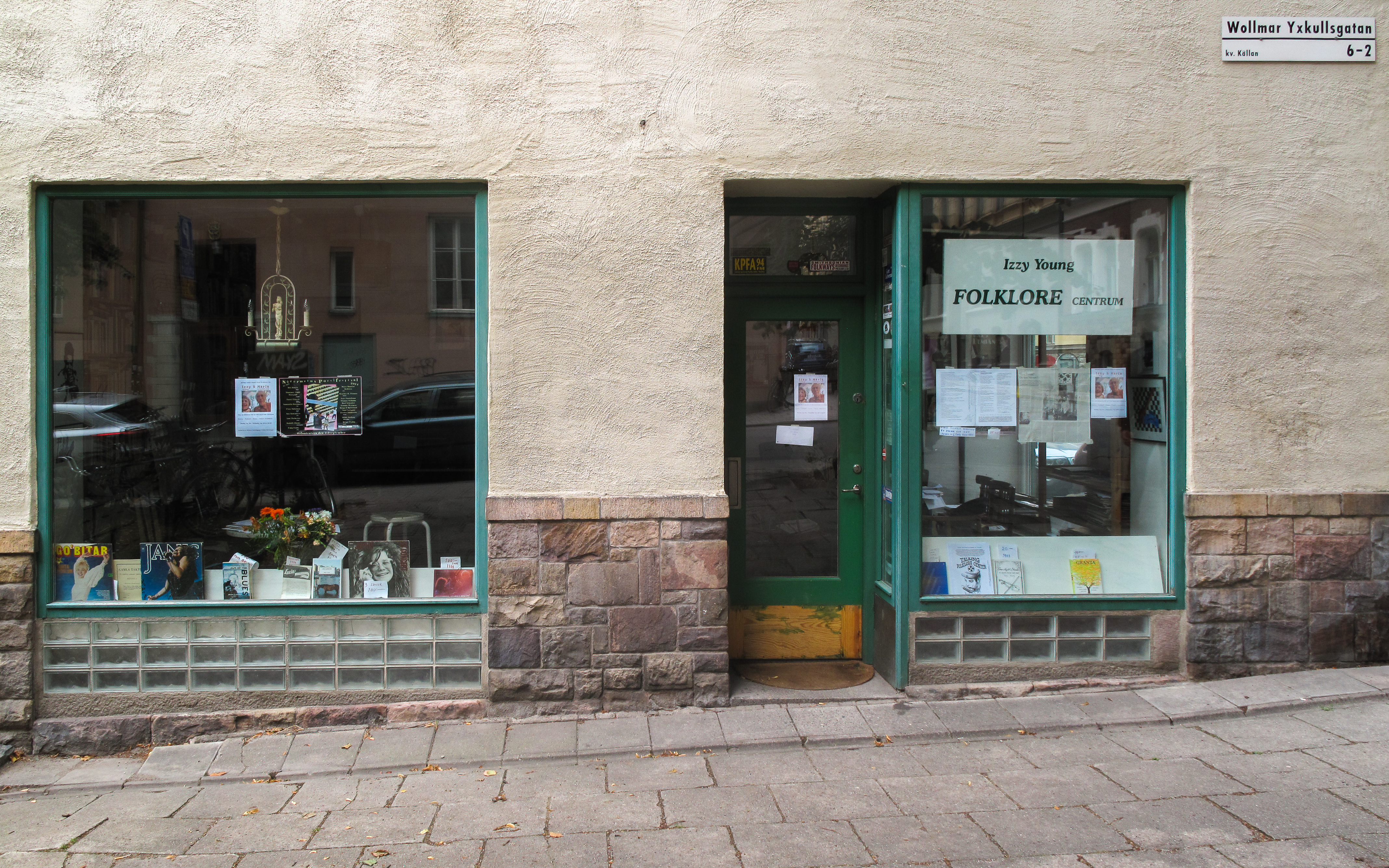 Front of Izzy Youngs Folklore Centrum in Stockholm, in August 2014